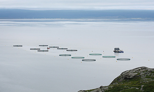 Fish farming of salmon i Nesseby, Norway